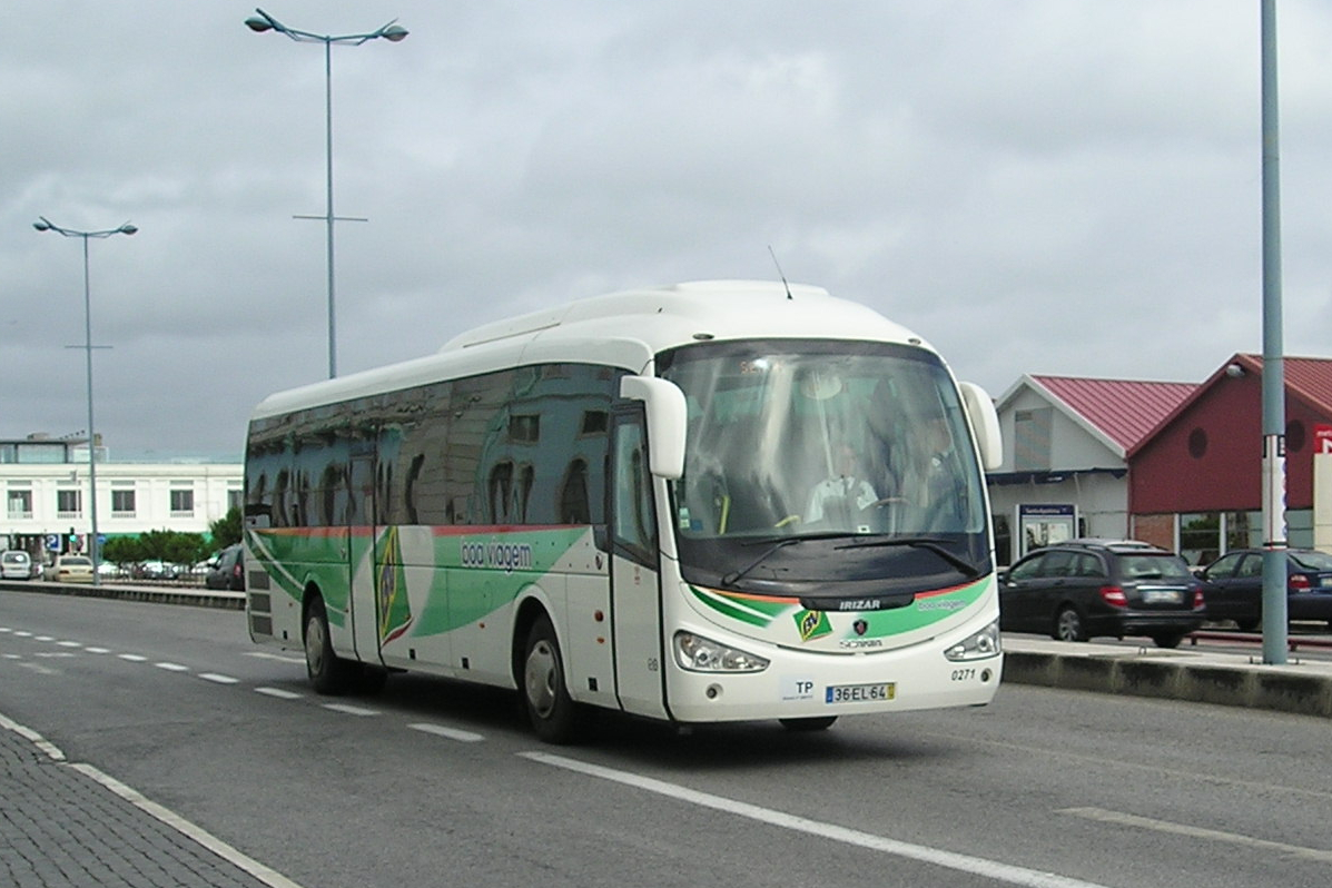 Boa Viagem, Quinta do Bravo, Alenquer, Portugal. Formed in1972 with the acquisition of Lee & Man and now operate 116 vehicles. Scania with Irizar body outside Santa Apolonia railway station, Lisbon, Portugal. October 2014.